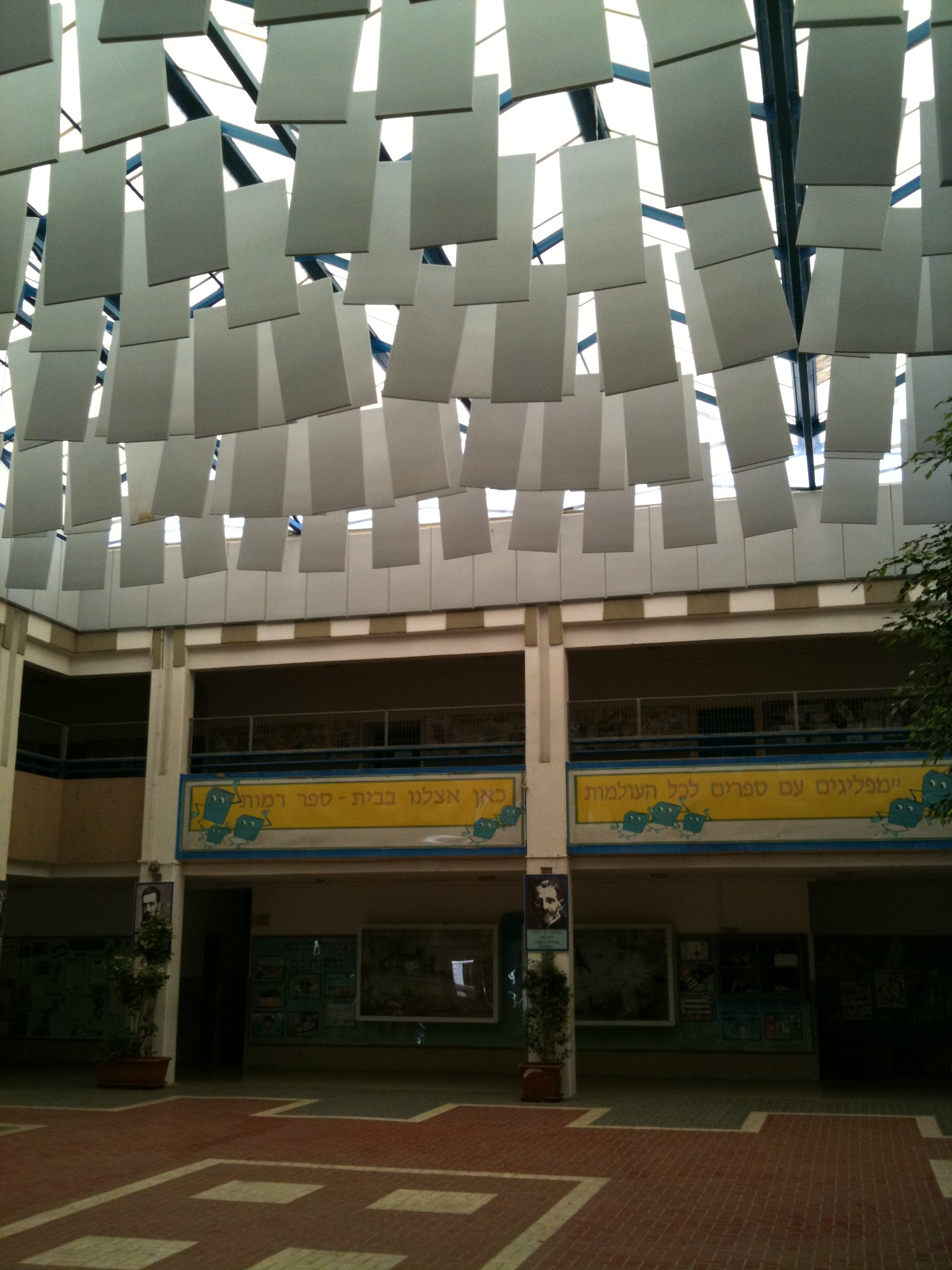 Echo proofing boards in an elementary school, Beer Sheva, Israel